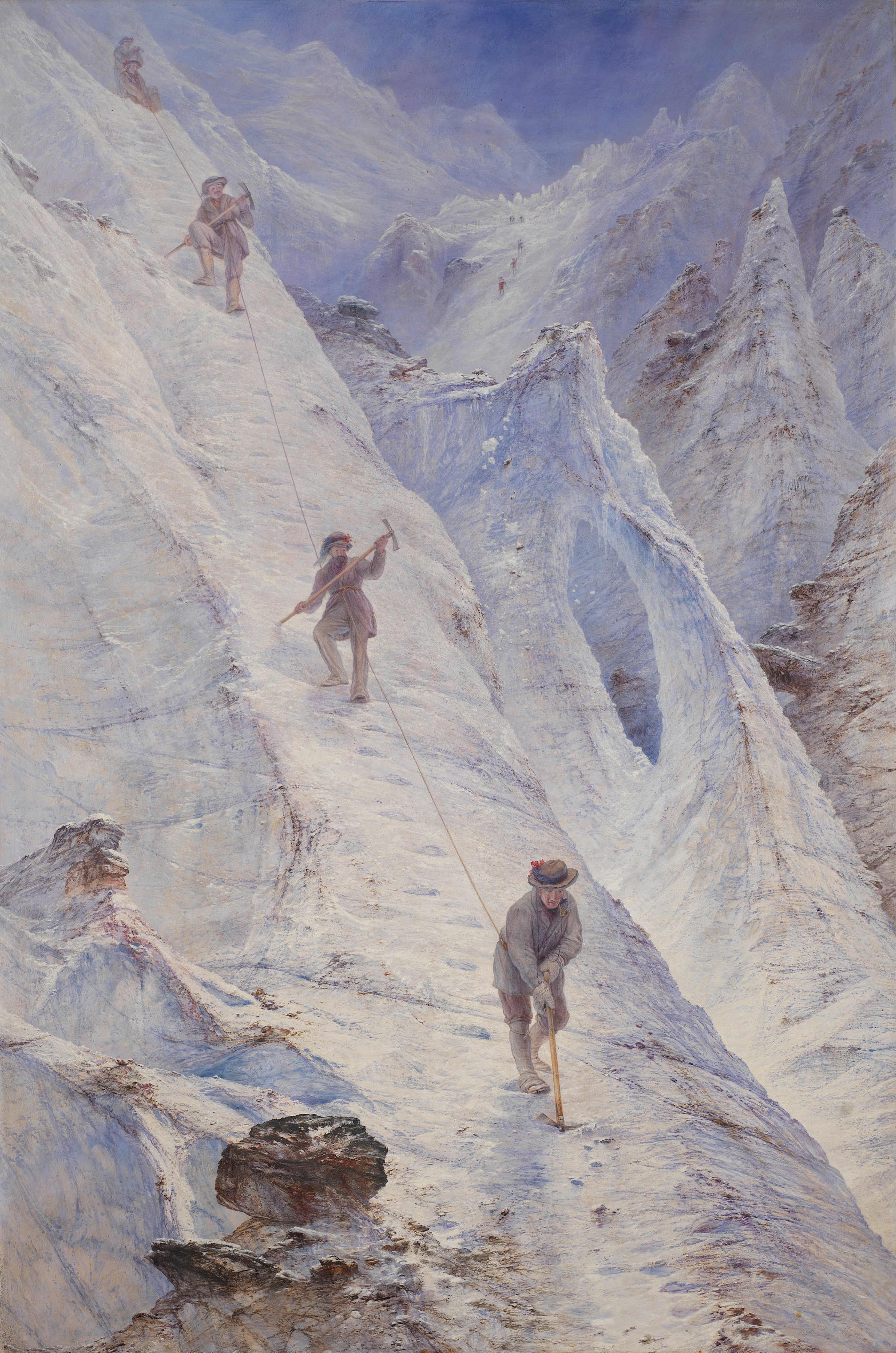 Alpine Climbers. Elijah Walton. 1869. 980 by 1,307 millimetres (38.6 in × 51.5 in). Oil on canvas. Birmingham Museum and Art Gallery via Google Cultural Institute